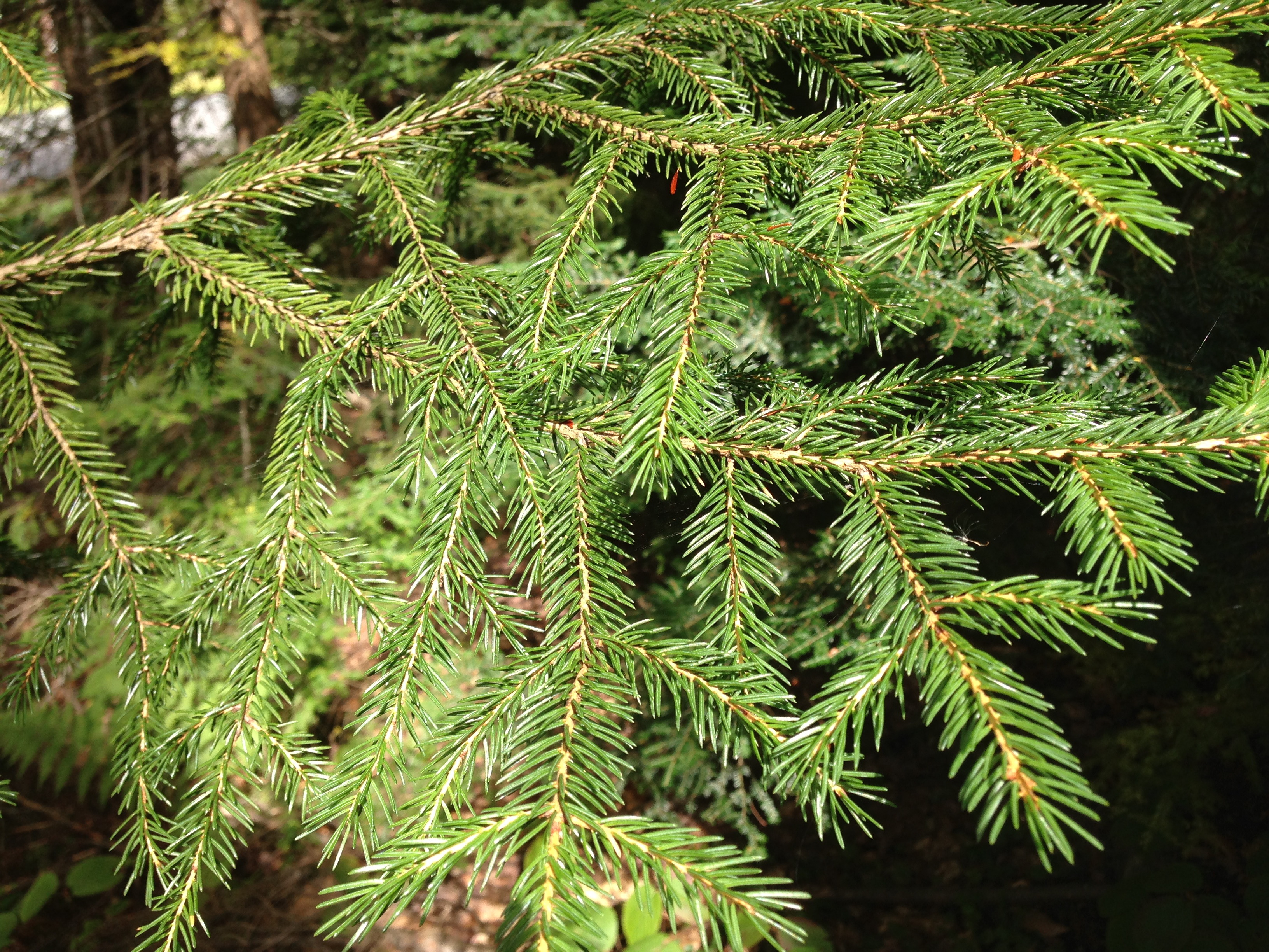 Closeup of Red Spruce foliage across Taborton Road from the entrance to Spring Lake in Berlin, New York on August 25th 2013